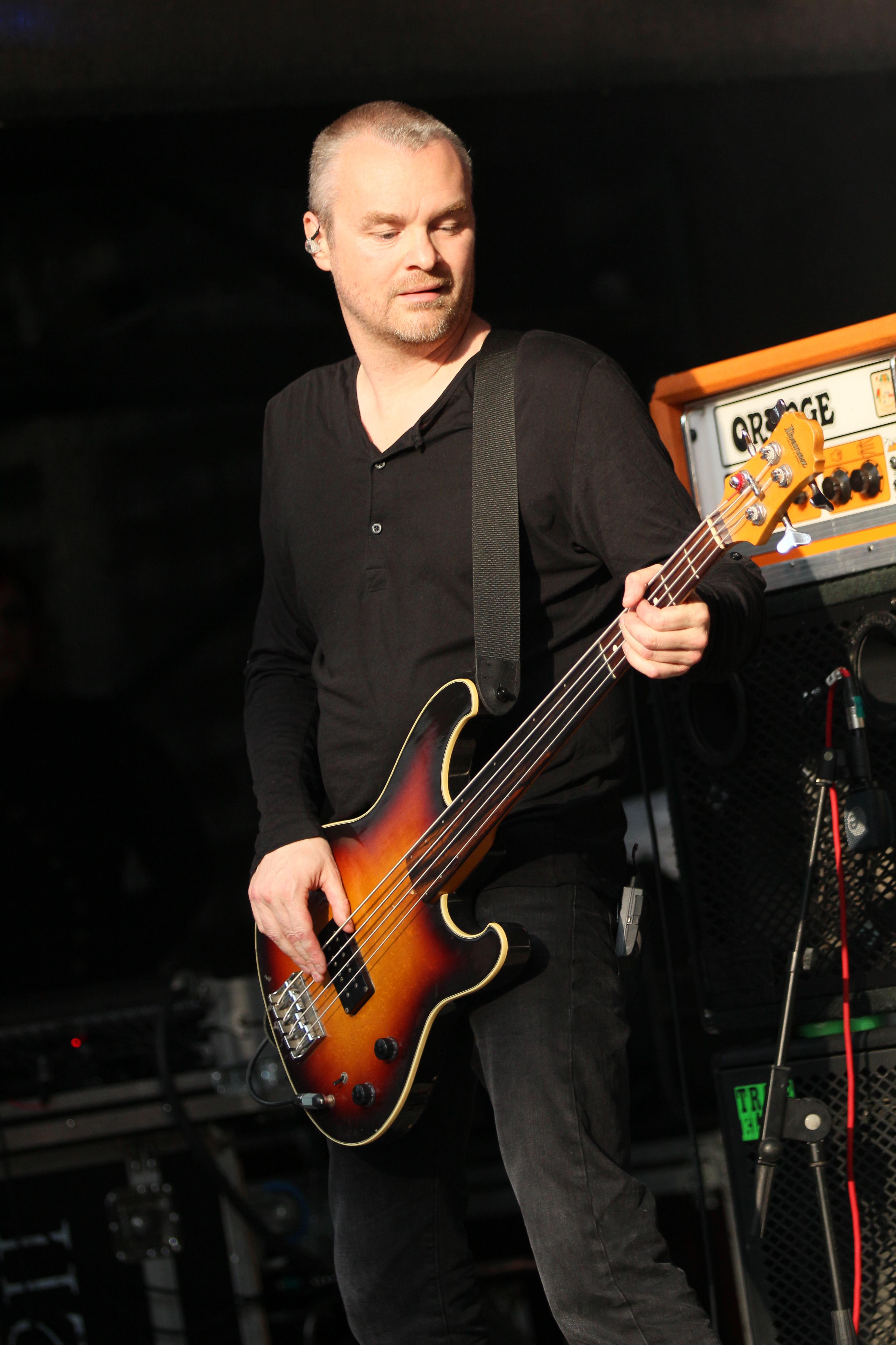 The German dark alternative band Henke at the Nocturnal Culture Night 9 2014 in Deutzen/Germany